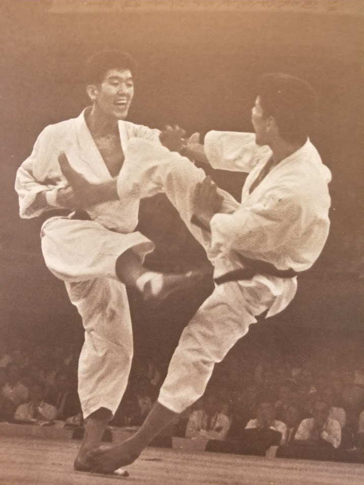 Katsuya Kisaka 1965 All Japan Kumite Champion